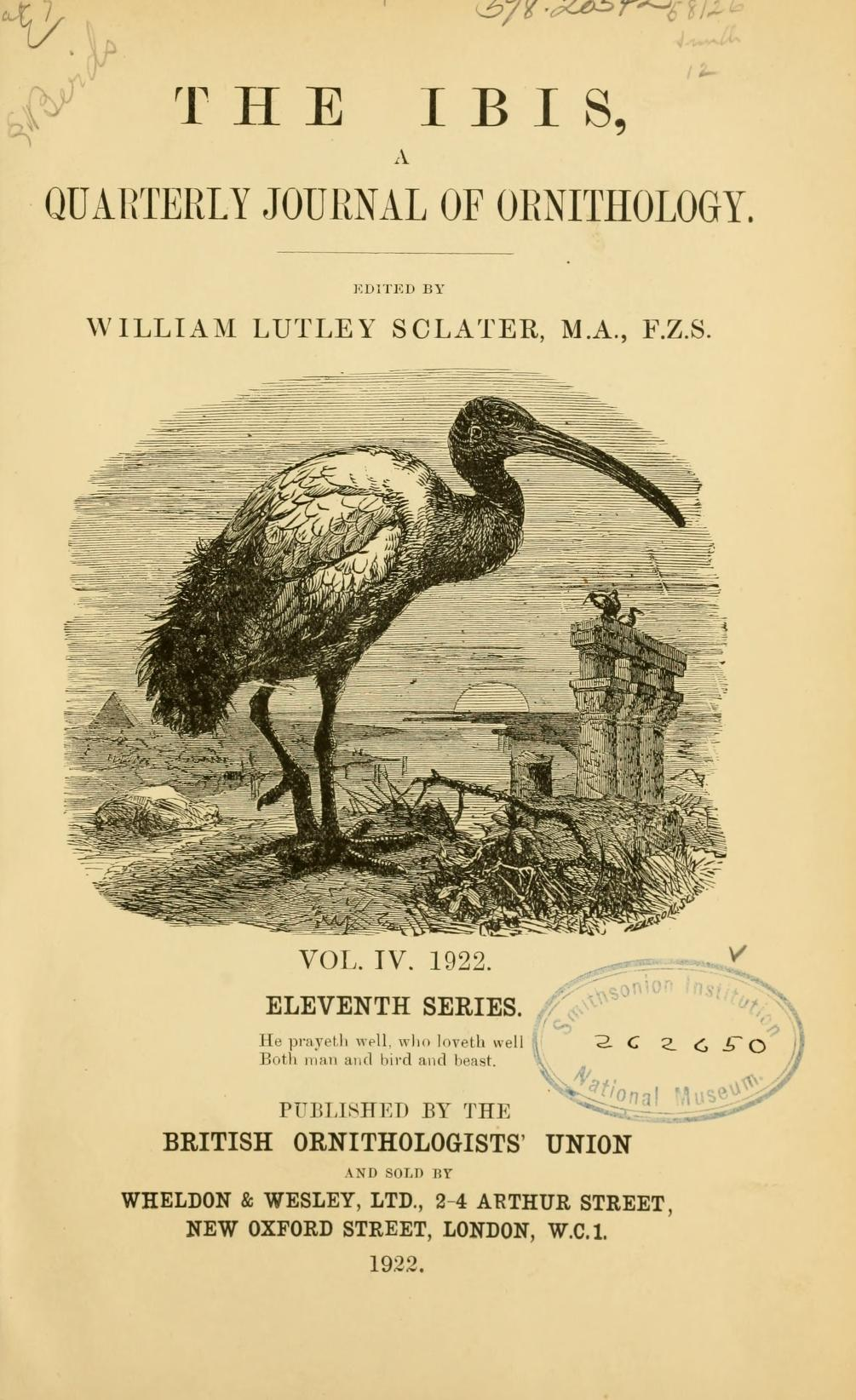 Cover of "Ibis", vol 4 1922. Now in collection of Smithsonian Institution.